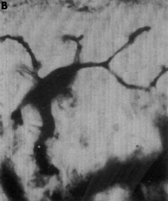 Picture of a Dendritic cell by Paul Langerhans